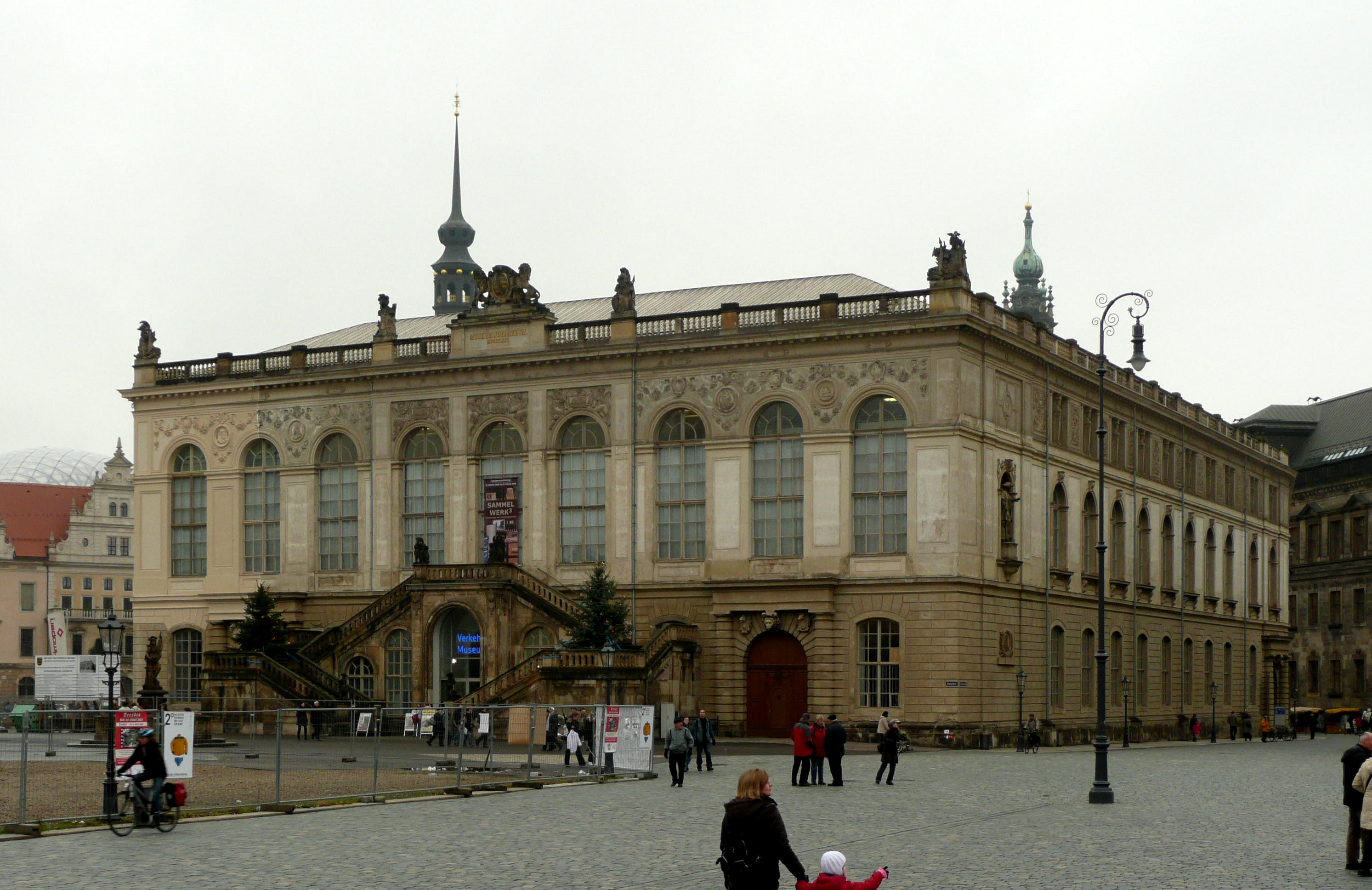 This image shows the Johanneum (built 1586-91, since 1956 used as transport museum) in Dresden.